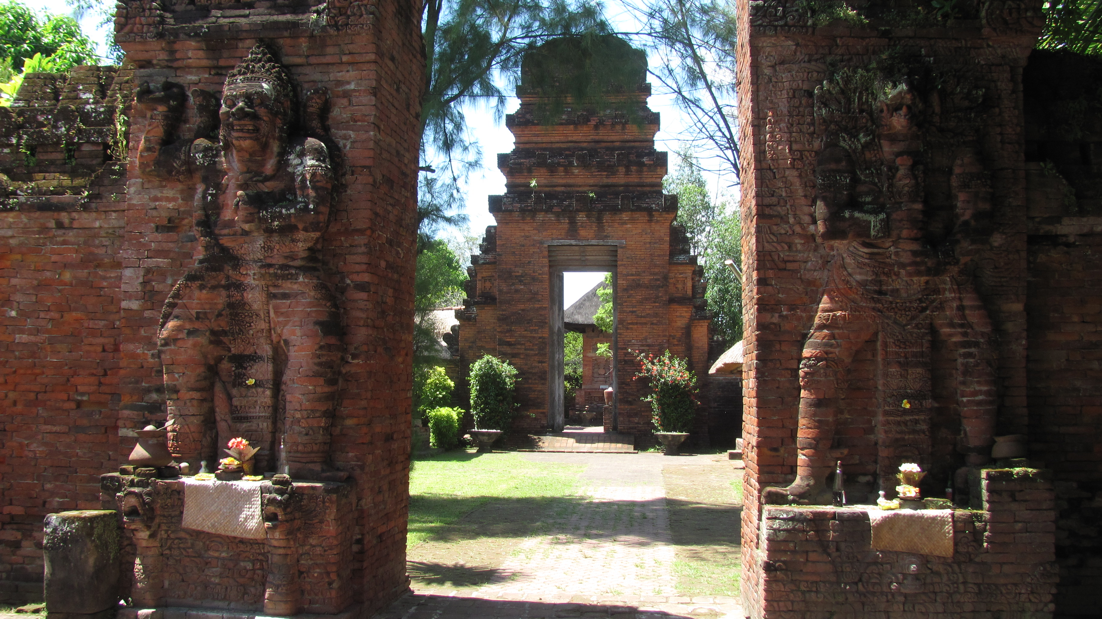 Hindu temple "Pura Maospahit", Denpasar, Bali, Indonesia